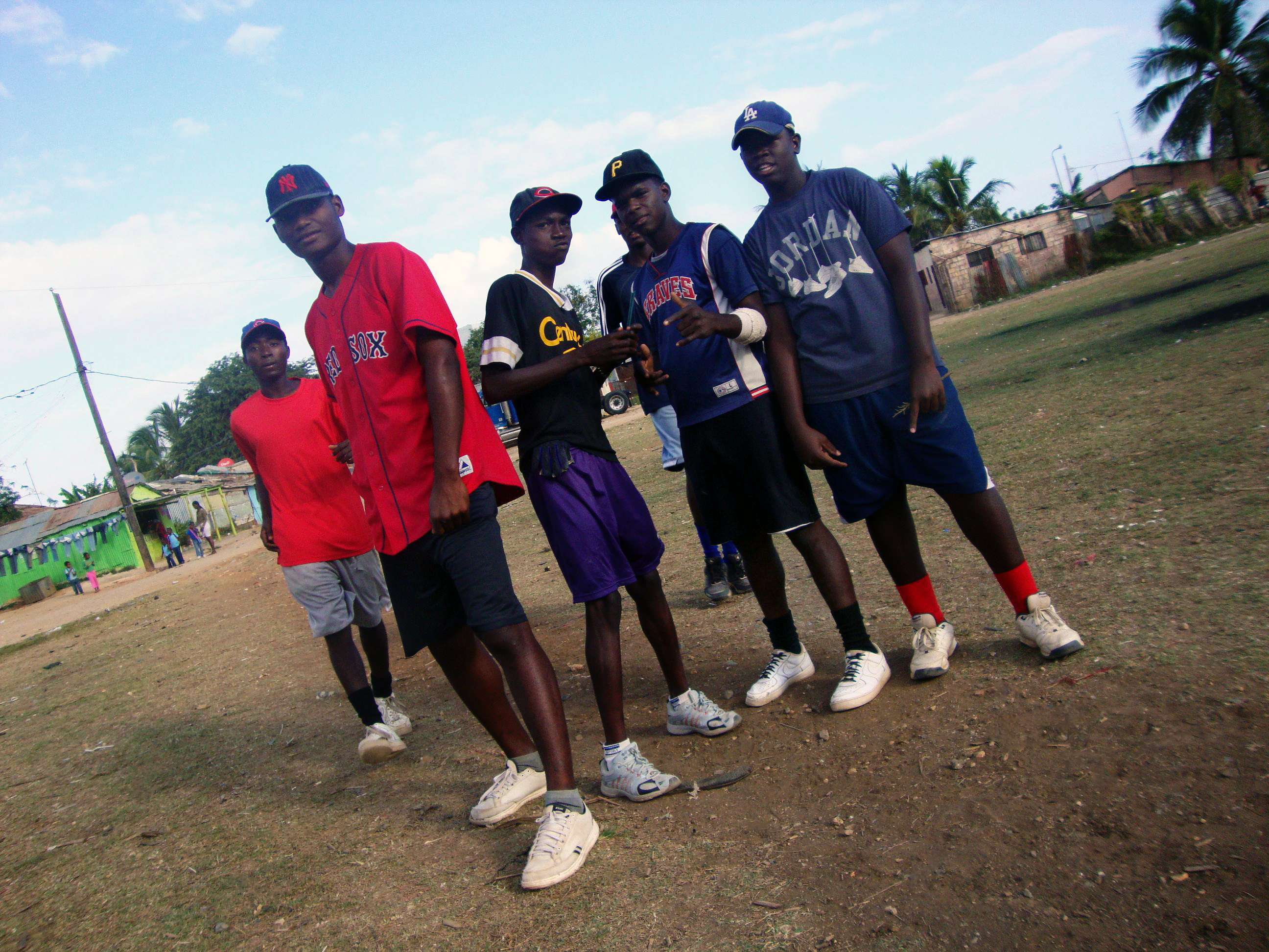 Boys from Batey in the Providence of San Pedro de Macoris